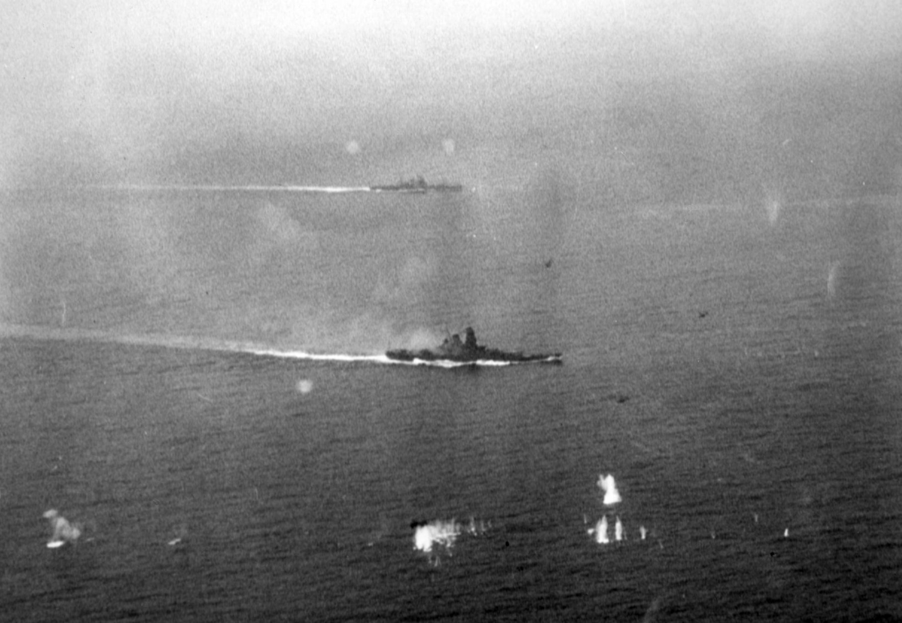 The Japanese battleship Yamato and a heavy cruiser, possibly Tone or Chikuma, in action during the Battle off Samar, 25 October 1944. There are three or four U.S. Navy planes visible, one is under fire in the foreground. The photo was taken from an aircraft from the escort carrier USS Petrof Bay (CVE-80).